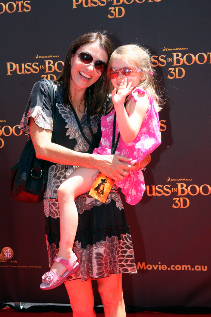 Katrina Warren (left) with girl (unidentified). Puss In Boots Australian Premiere: Sydney's Entertainment Quarter Puss Mania, by Eva Rinaldi Eva Rinaldi Photography Flickr Eva Rinaldi Photography